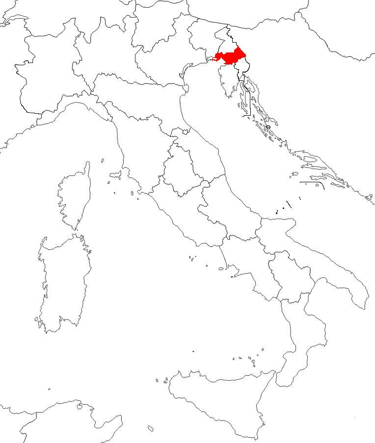 Map of Italian province of Trieste (1922-1945).